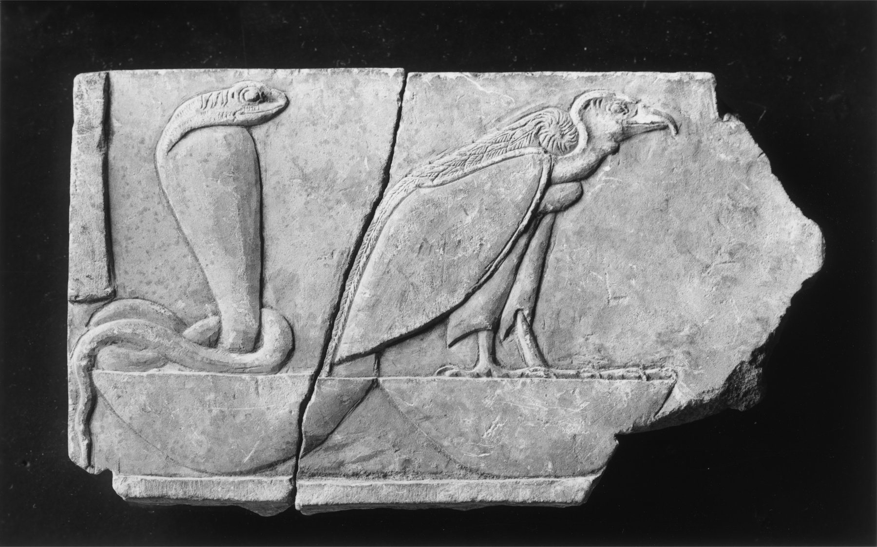 This model is carved in relief. The front depicts a vulture and a rearing uraeus. The back depicts a human bust. The piece has been repaired, and one half is broken off.